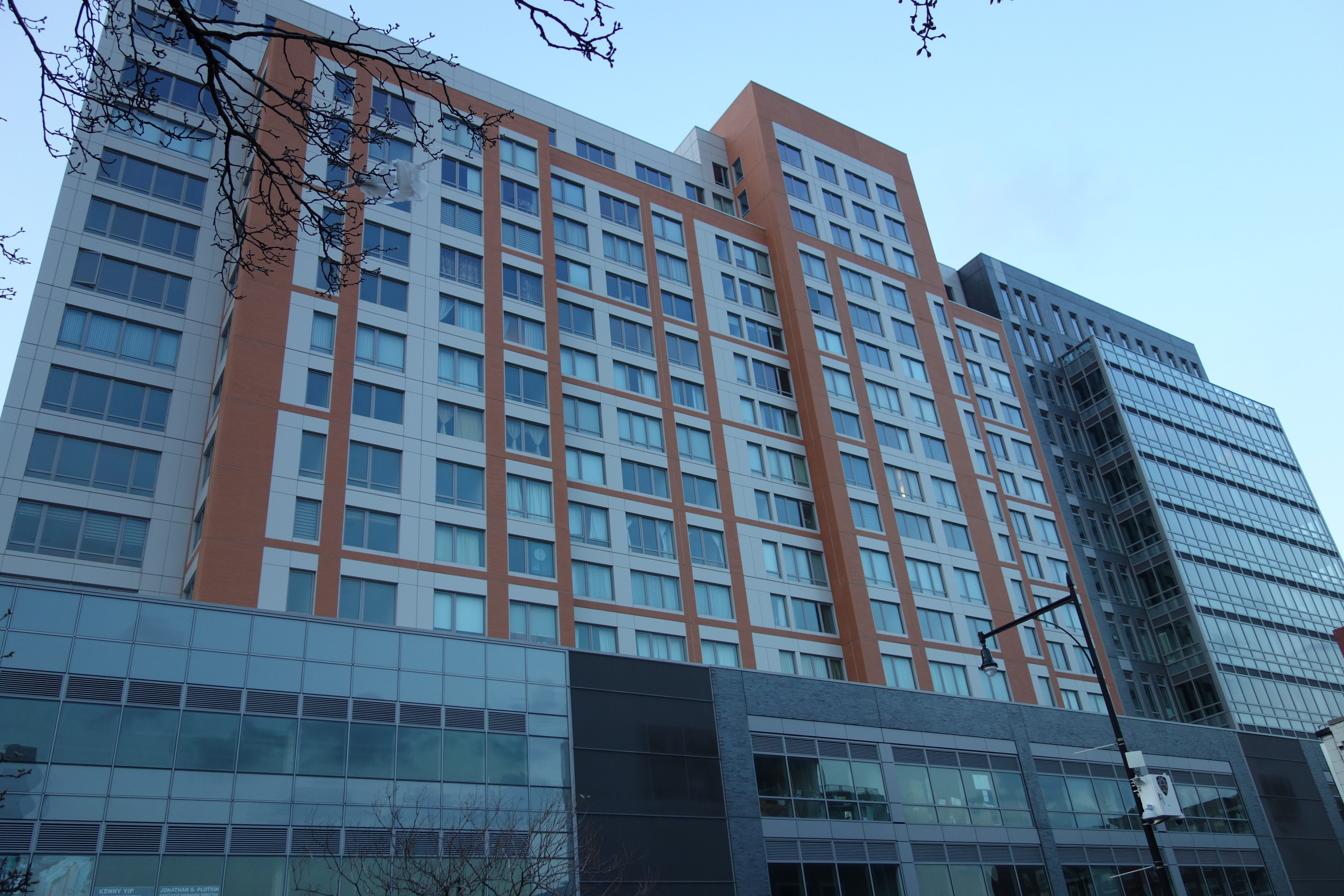 The Flushing Commons apartment complex at 39th Avenue between 138th Street and Union Street, east of Main Street, in Downtown Flushing, Queens. Looking from the north end of the Lippmann Plaza arcade.